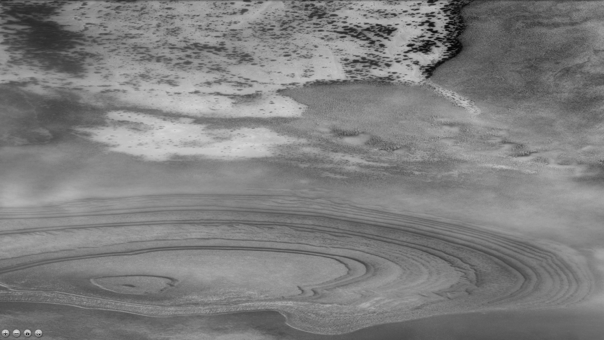 Jeans crater showing layers and defrosting, as seen by ctx